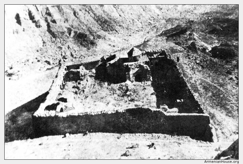 Armenian Amenaprkich monastry of Jugha (Julfa), view from west